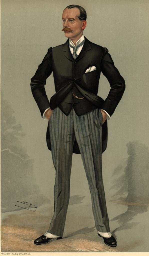 Smith, William Frederick Danvers (Viscount Hambleden) - “Head of the greatest publishing house in Christendom”.